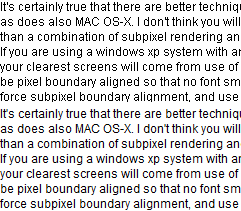 This image demonstrates the difference between using ClearType font smoothing and not. The text in the upper half of the image does not use any rendering, whilst the text on the lower half of the image uses ClearType.